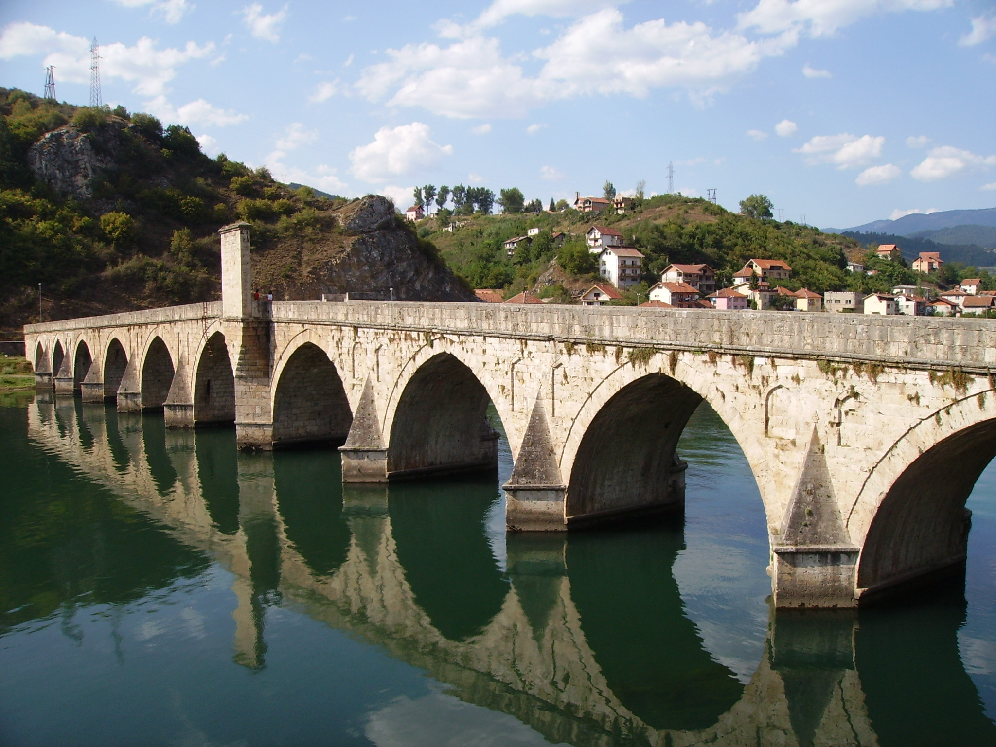 Bridge over Drina River in Višegrad, BiH.